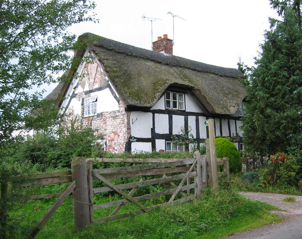 Yewtree Cottage, Pewit Lane, Hunsterson, Cheshire, seen from the southeast